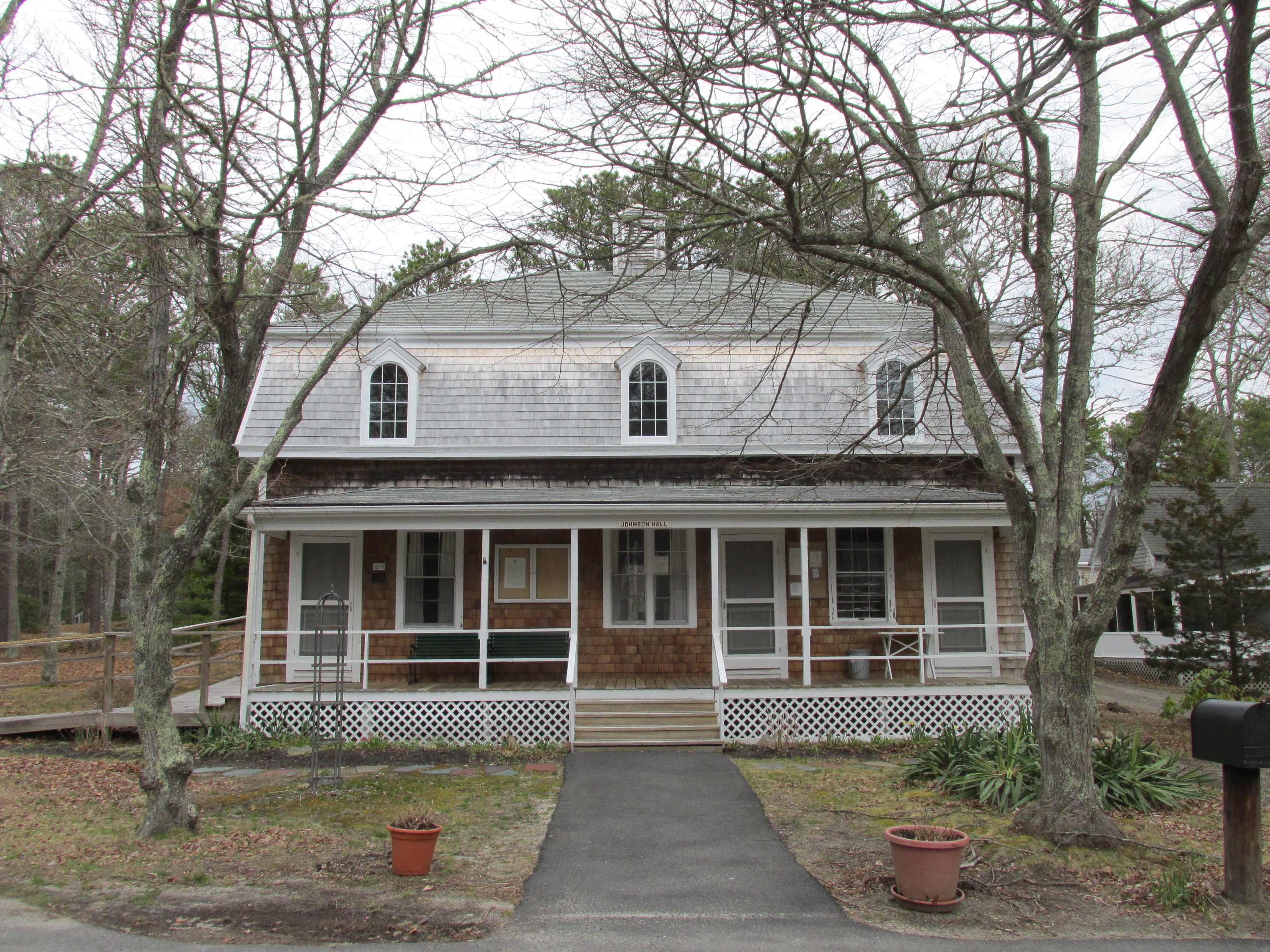 Johnson Hall, Yarmouth Camp Ground, Yarmouth Massachusetts - 2013